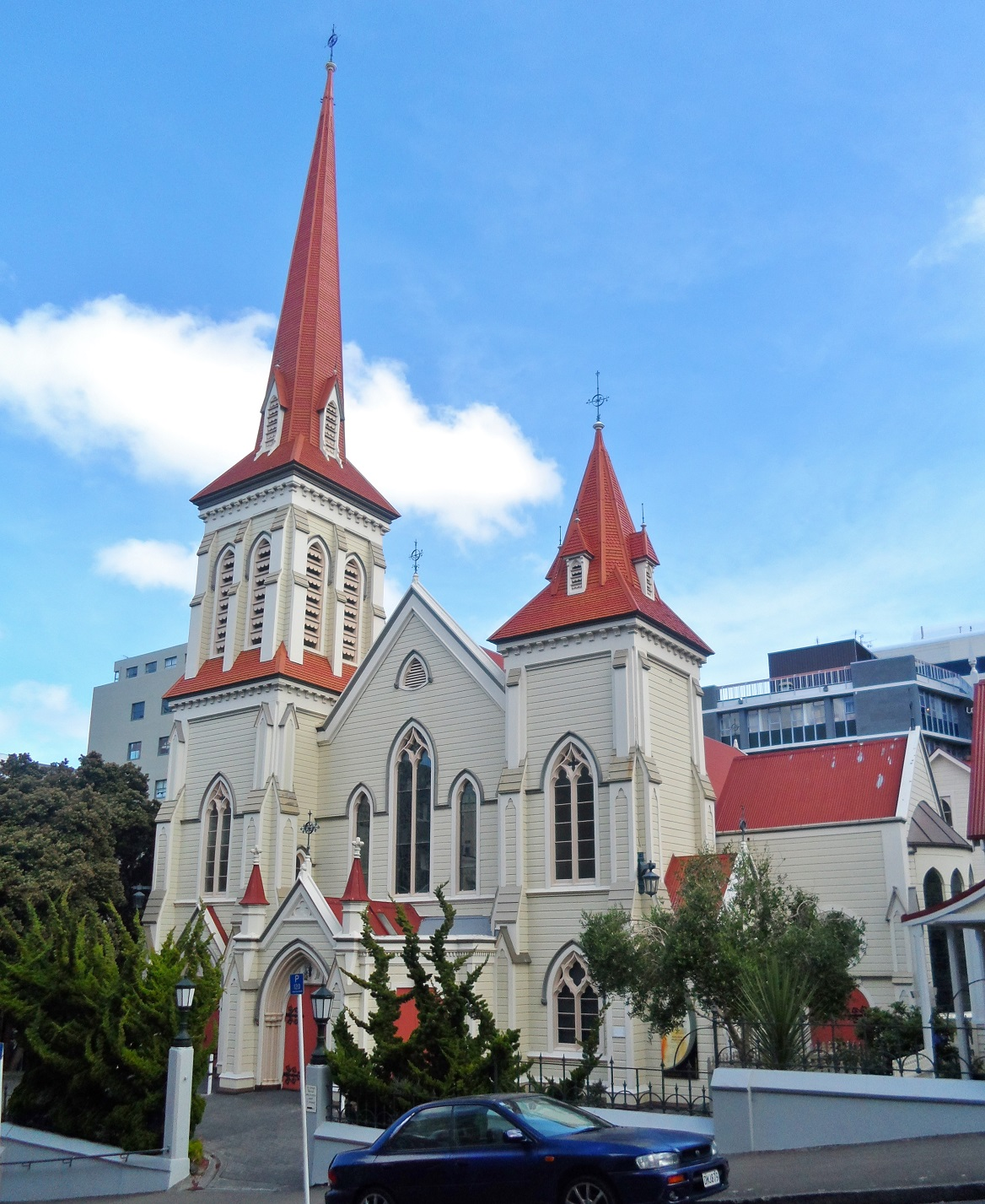 St John's in the City Presbyterian Church at 170 Willis St, Te Aro in Wellington, New Zealand in 2015.